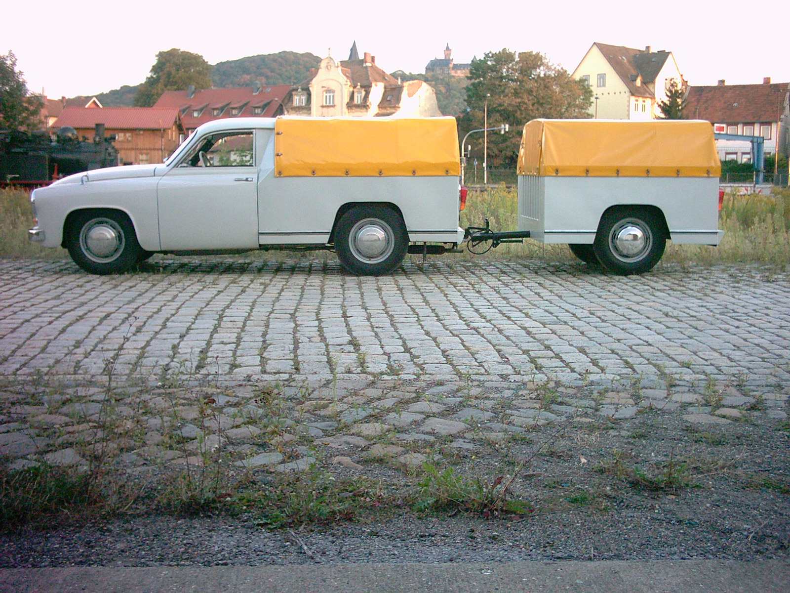 Wartburg 311 pickup